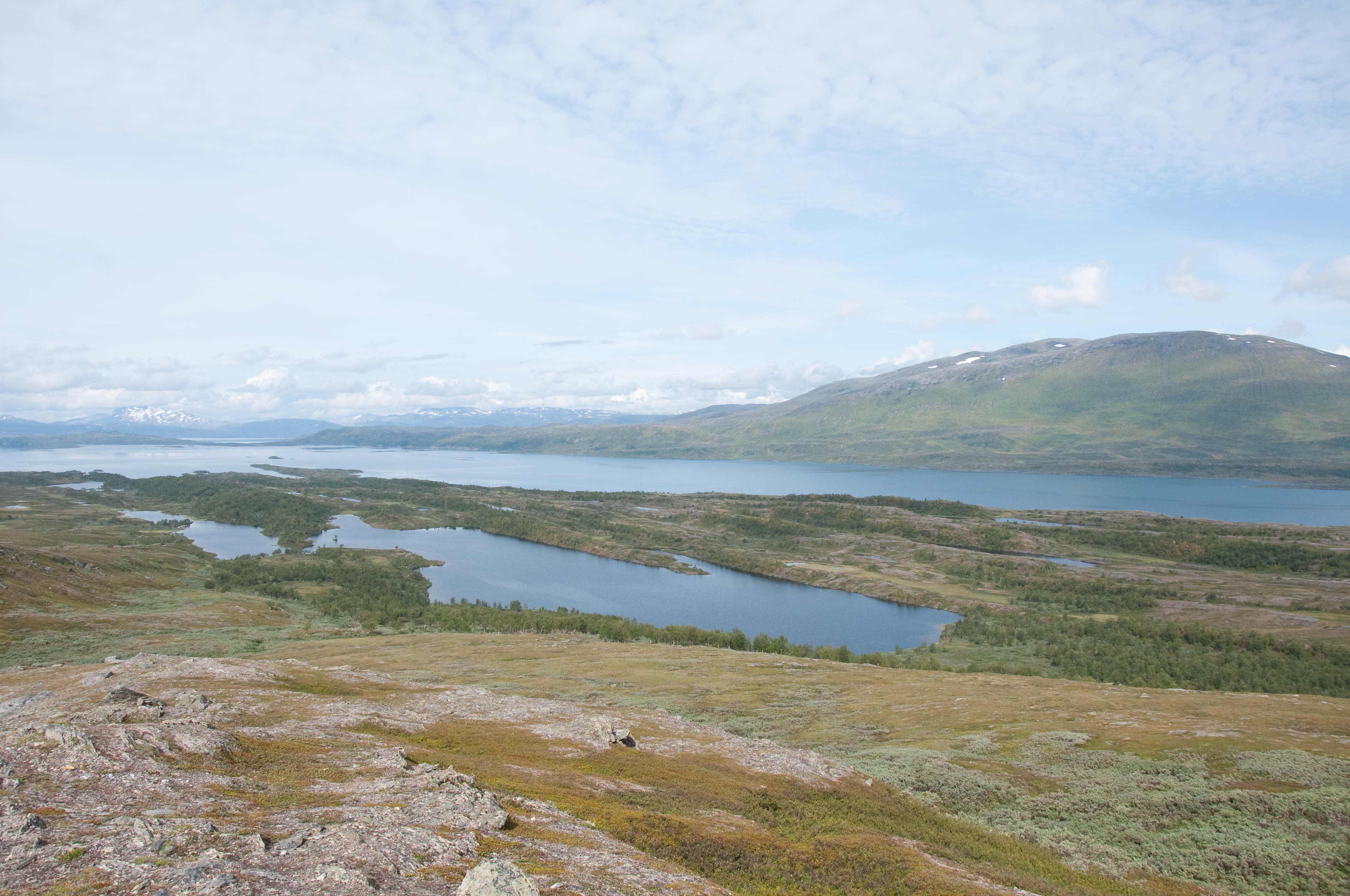 Dijdderjávrre lake in the foreground and Virihaure lake in the background, Padjelanta national park, swedish lapland.